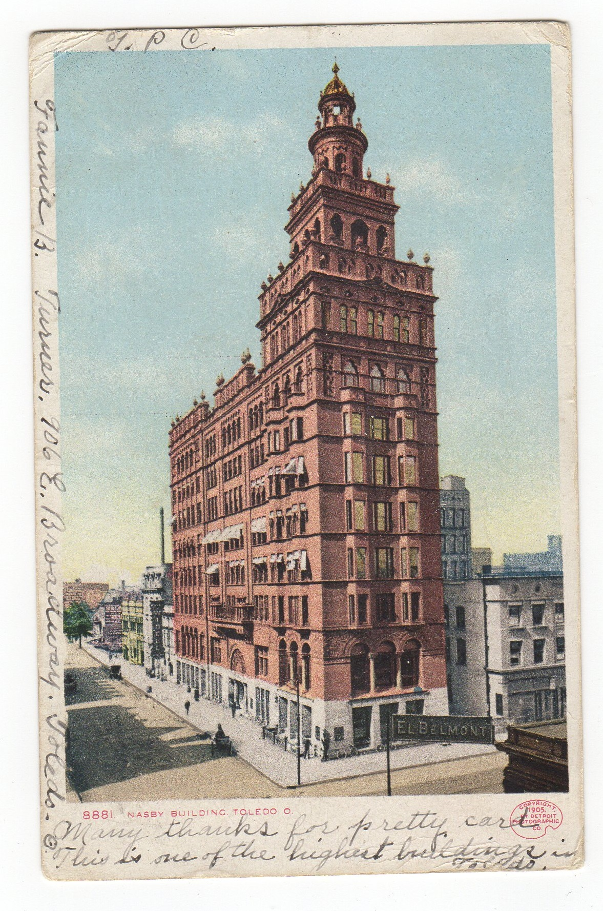 Nasby building toledo ohio no. 8881